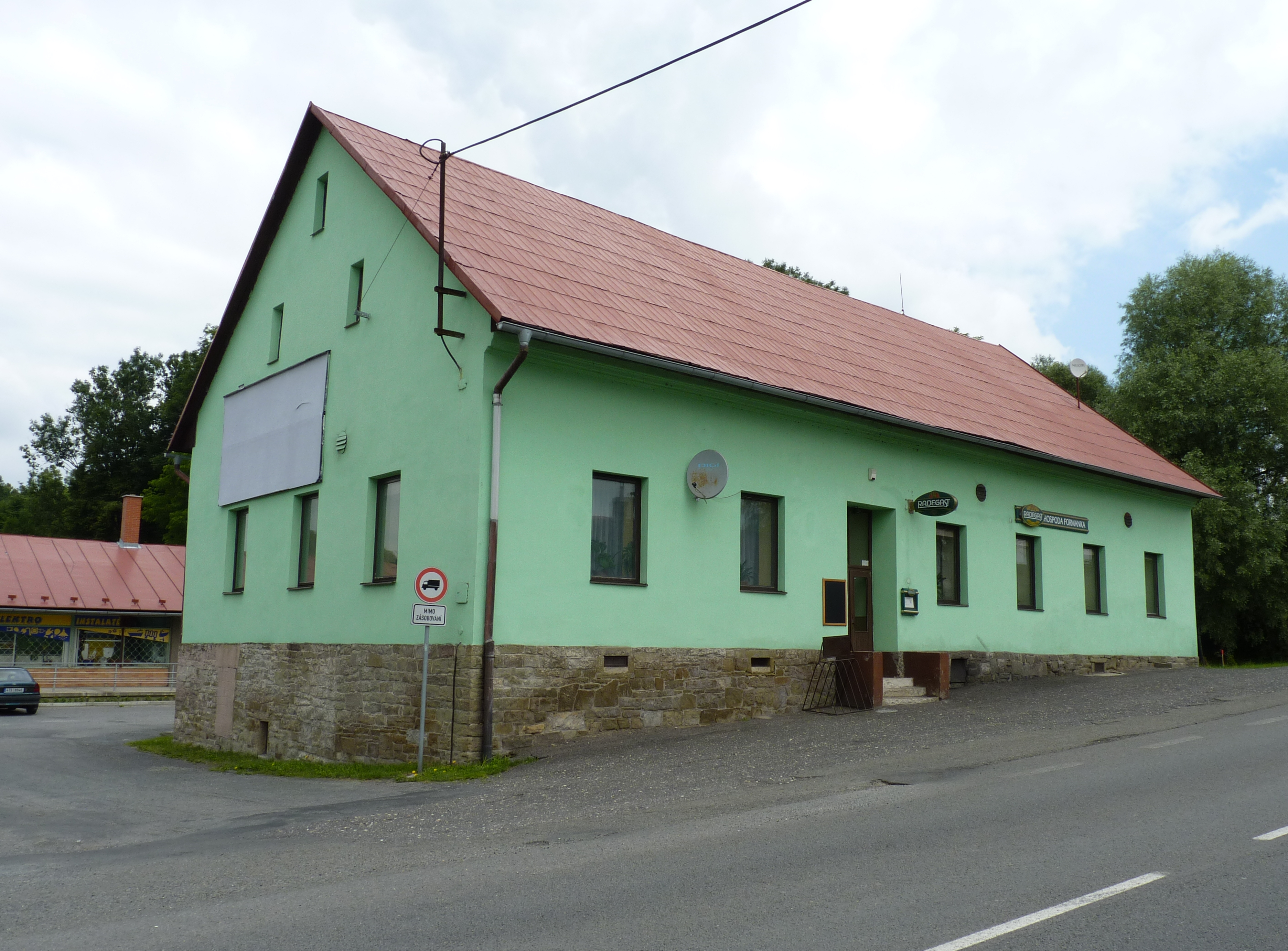 Vojkovice. Frýdek-Místek District, Moravian-Silesian Region, Czech Republic